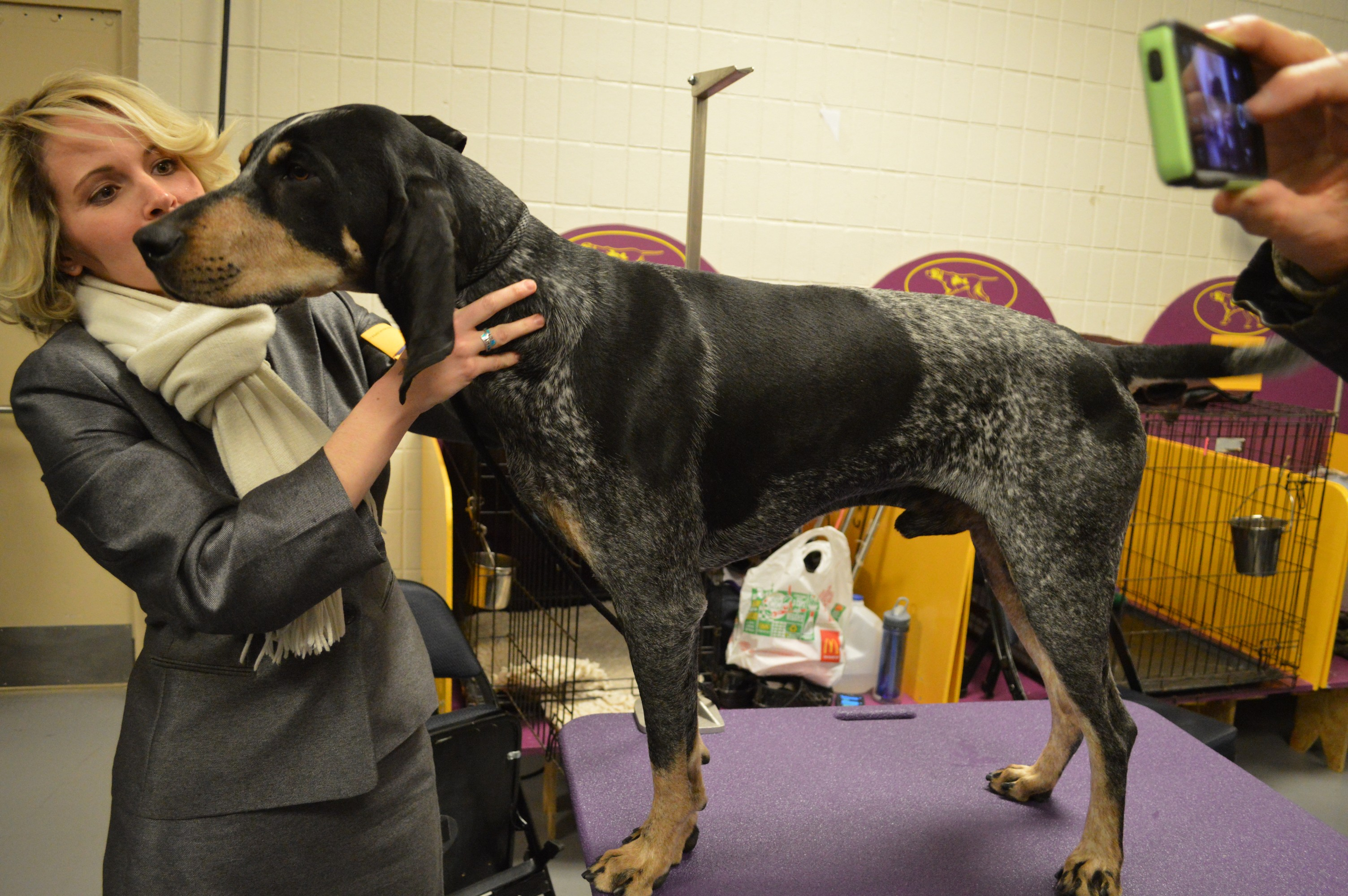 TERMS OF USE: You must link directly to our website, rather than Flickr if you use this photo. Thanks for your cooperation. 2015 Westminster Kennel Club Dog Show, New York City.